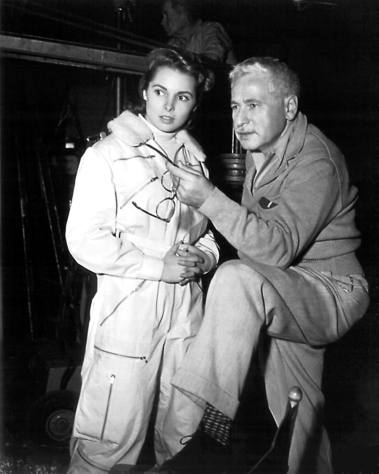 Jet Pilot (1957). Josef von Sternberg, director. On set publicity photo, Janet Leigh, Sternberg. RKO Pictures.